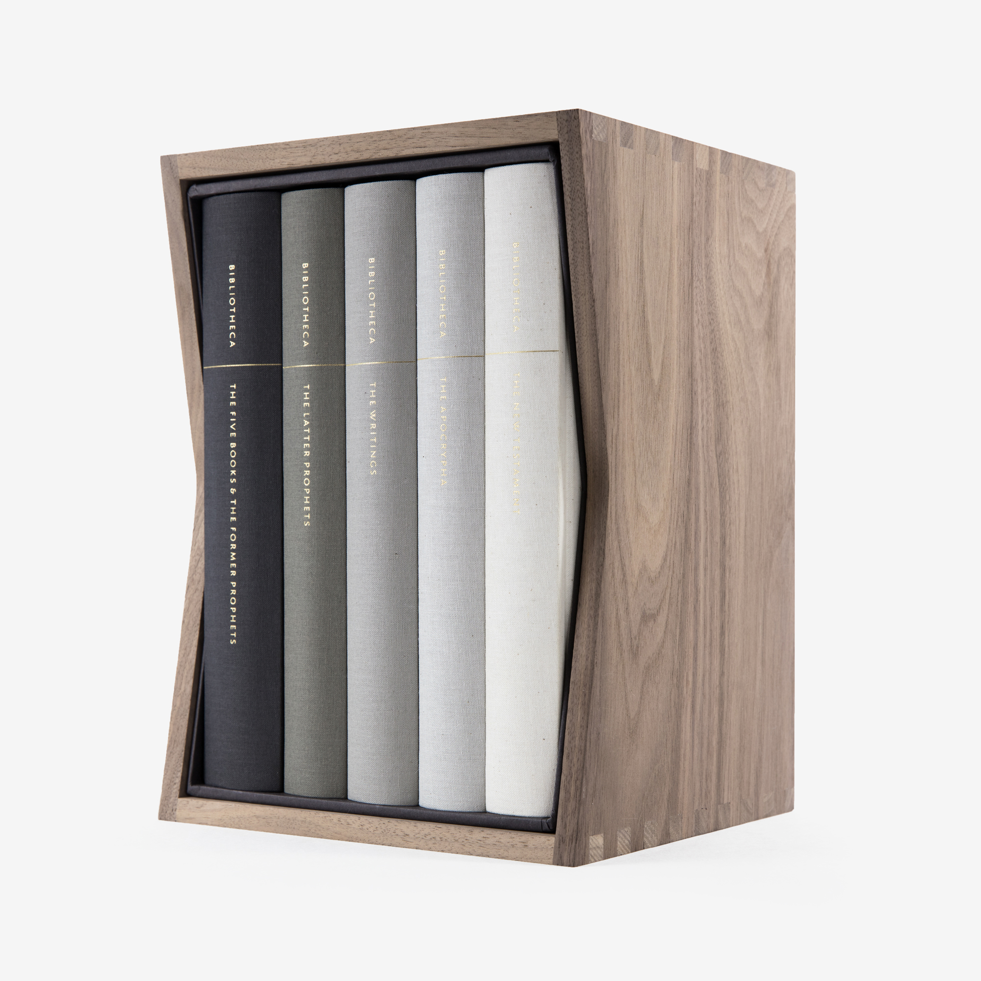 Bibliotheca, a five-volume reader’s Bible, shown in a wooden slipcase.